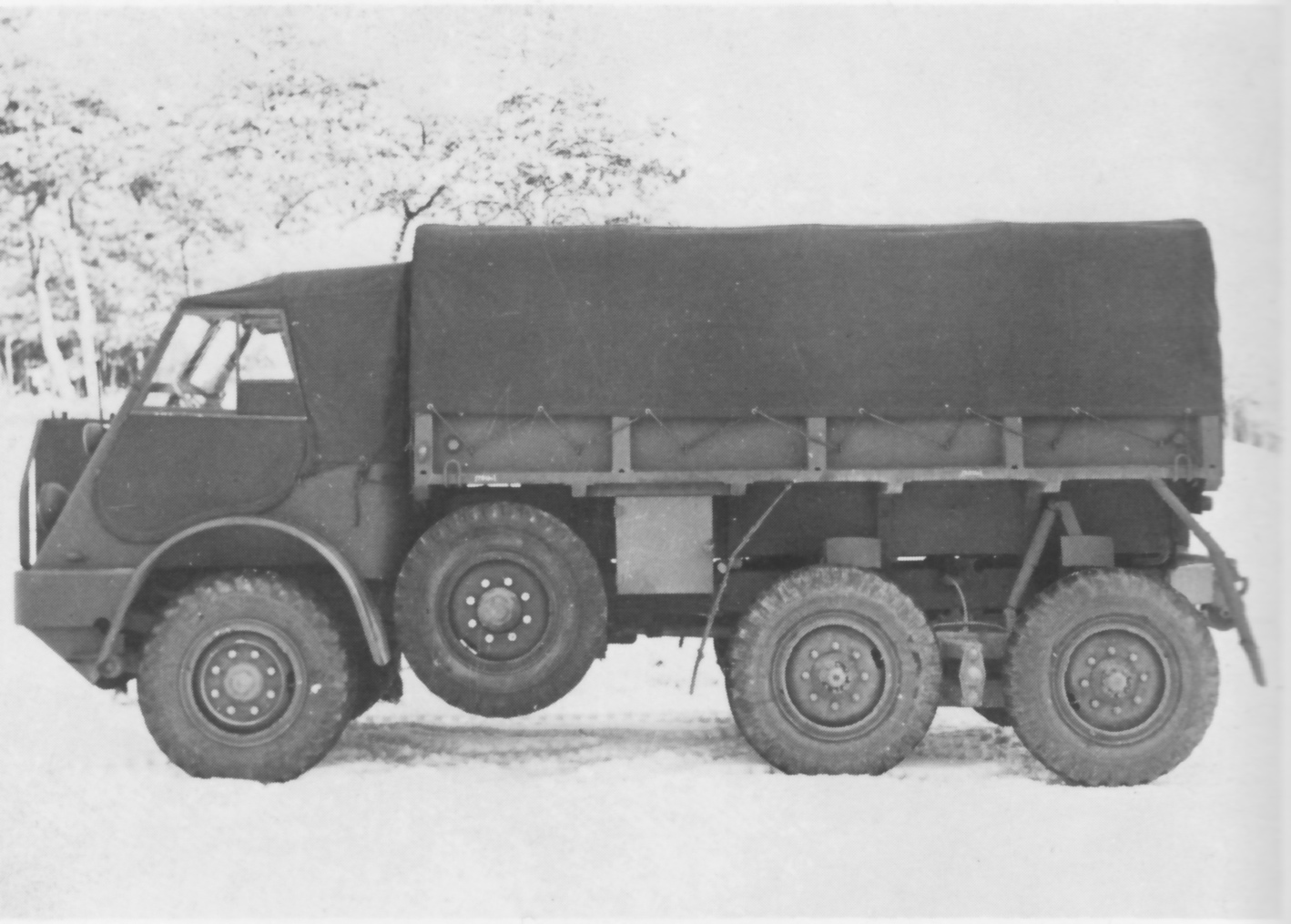 This is the prototype named DAF YA 318. This truck was finally taken into serie-production as DAF YA 328 Artillery tractor for the Dutch Army.